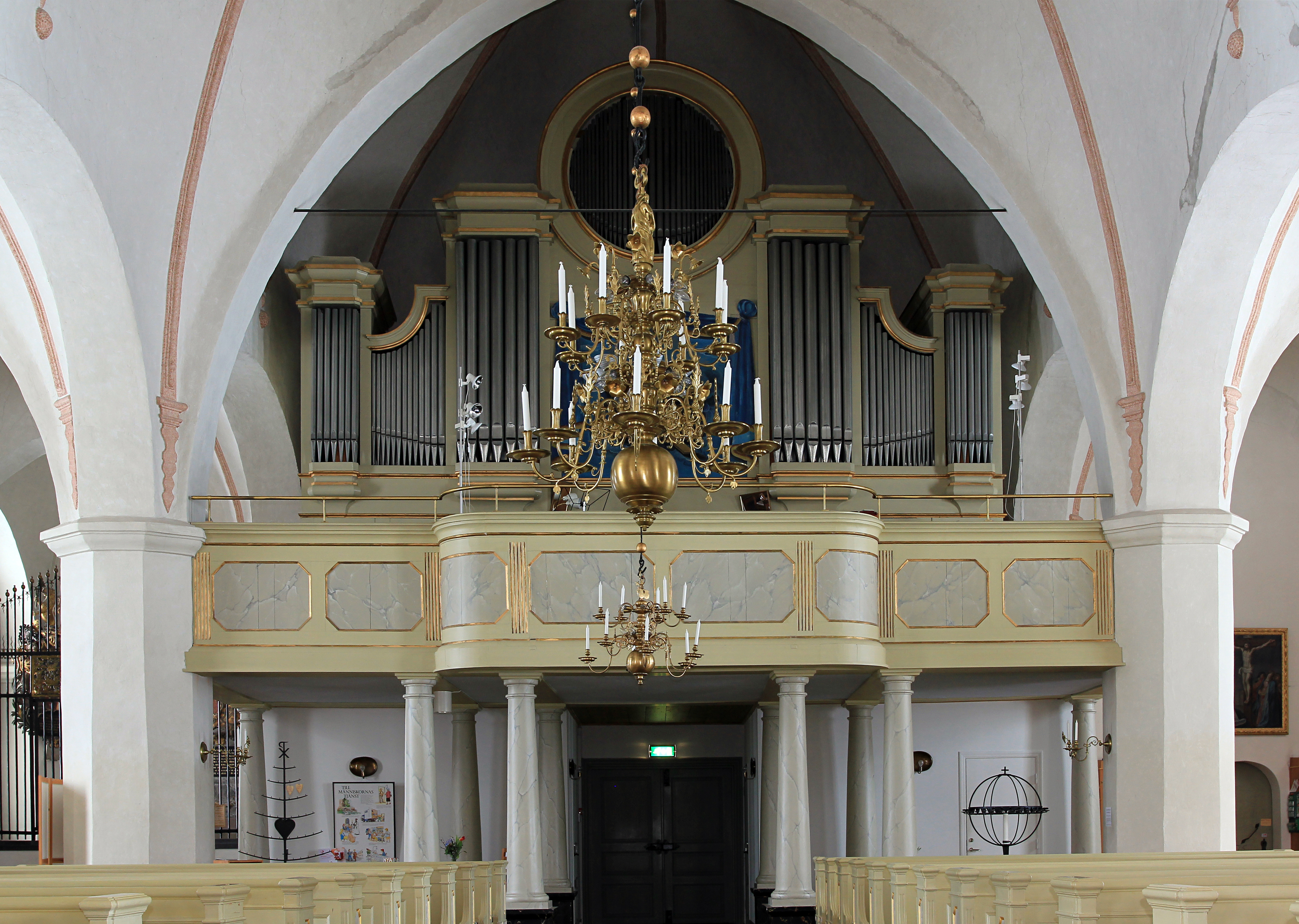 Organ of Söderbärke Church, main church of Söderbärke Parish, Smedjebacken Municipality, Sweden.